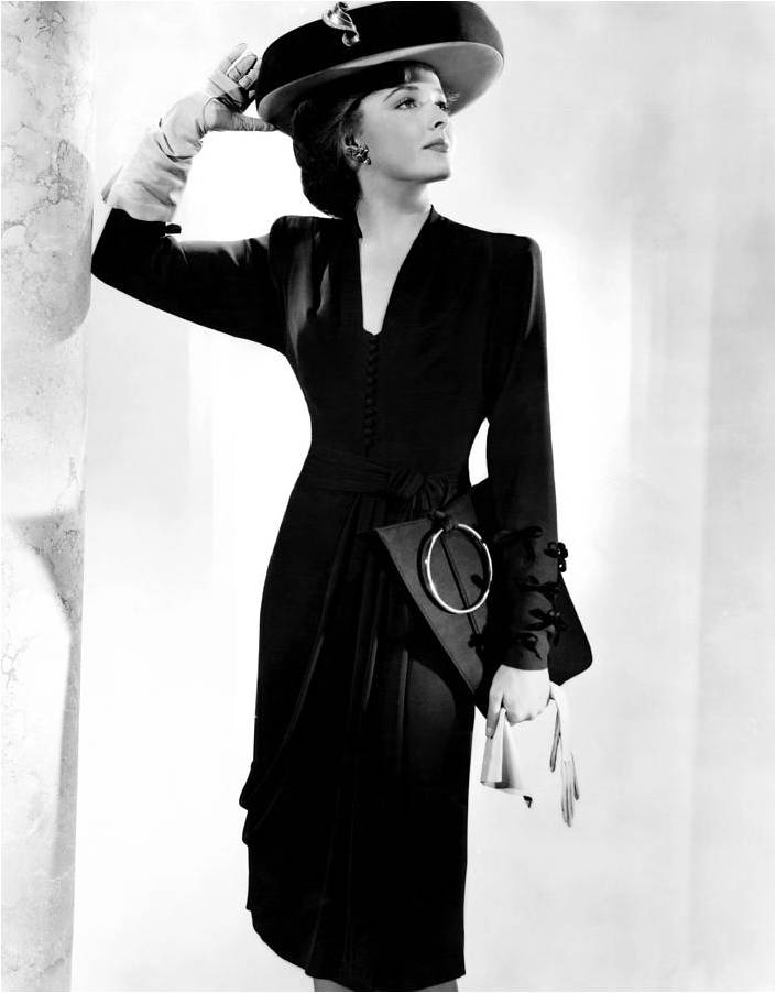 Publicity photo of Laraine Day.